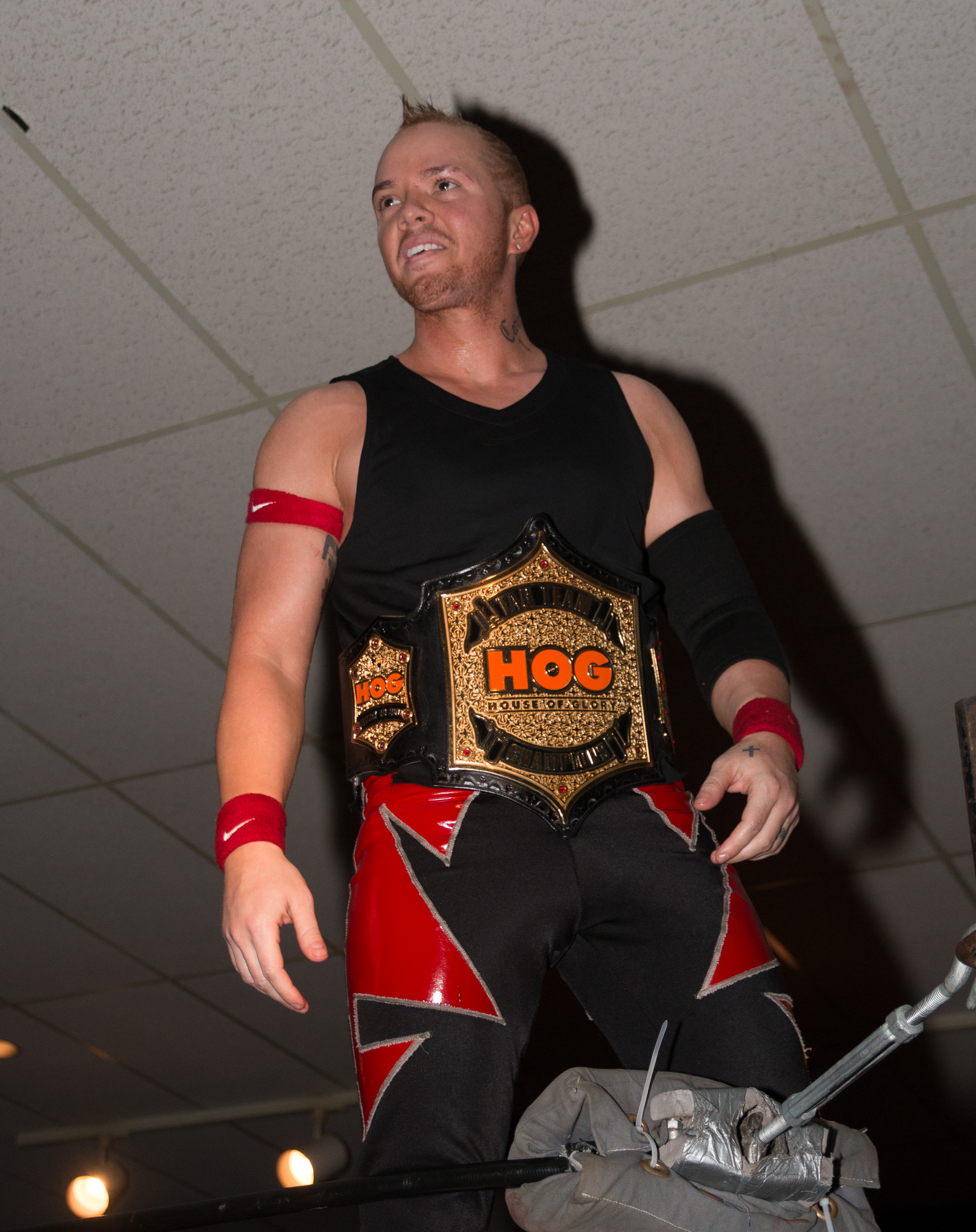 Independent wrestler Amazing Red with the House of Glory tag team championship around his waist, at the "Squared Circle LIVE! vs House of Glory: PREMIER SHOWCASE" in Mississauga, ON